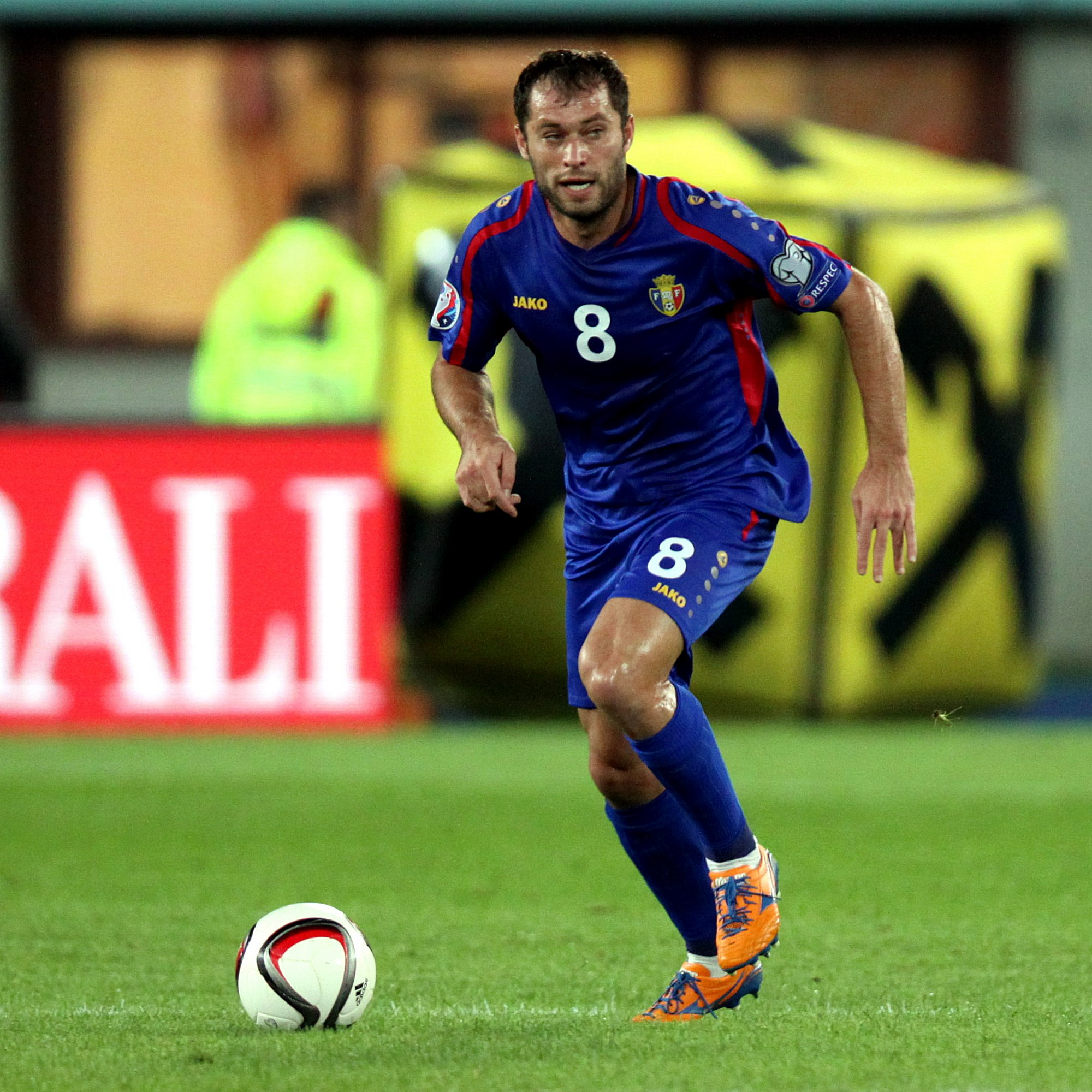 UEFA Euro 2016 qualifying, Group G – Austria national football team (red shirts) vs. Moldova national football team (blue shirts) on 2015-09-05 in Ernst-Happel-Stadion, Vienna: The photo shows Eugeniu Cebotaru